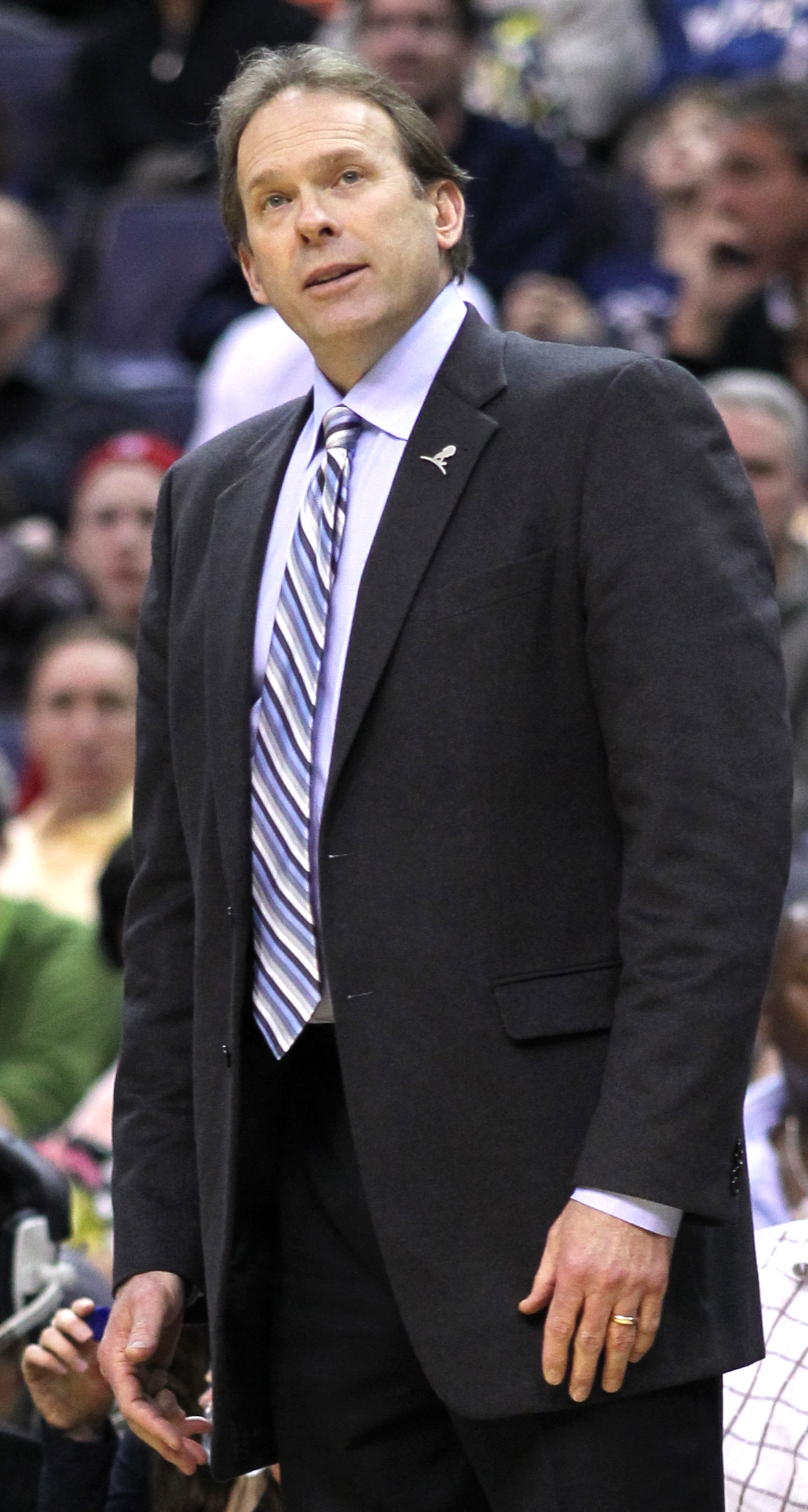 Wizards v/s Timberwolves 03/05/11